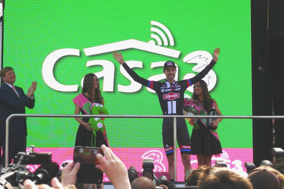 Dutchman Tom Dumoulin (Giant-Alpecin) won the first stage of the 2016 Giro d'Italia